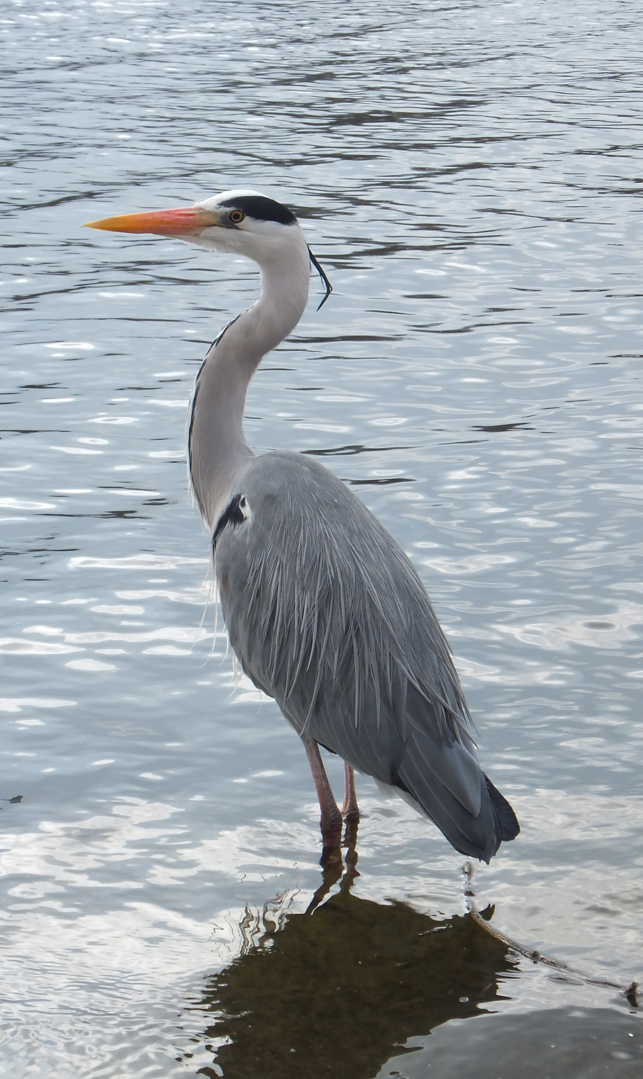 A grey heron in Hyde Park, London